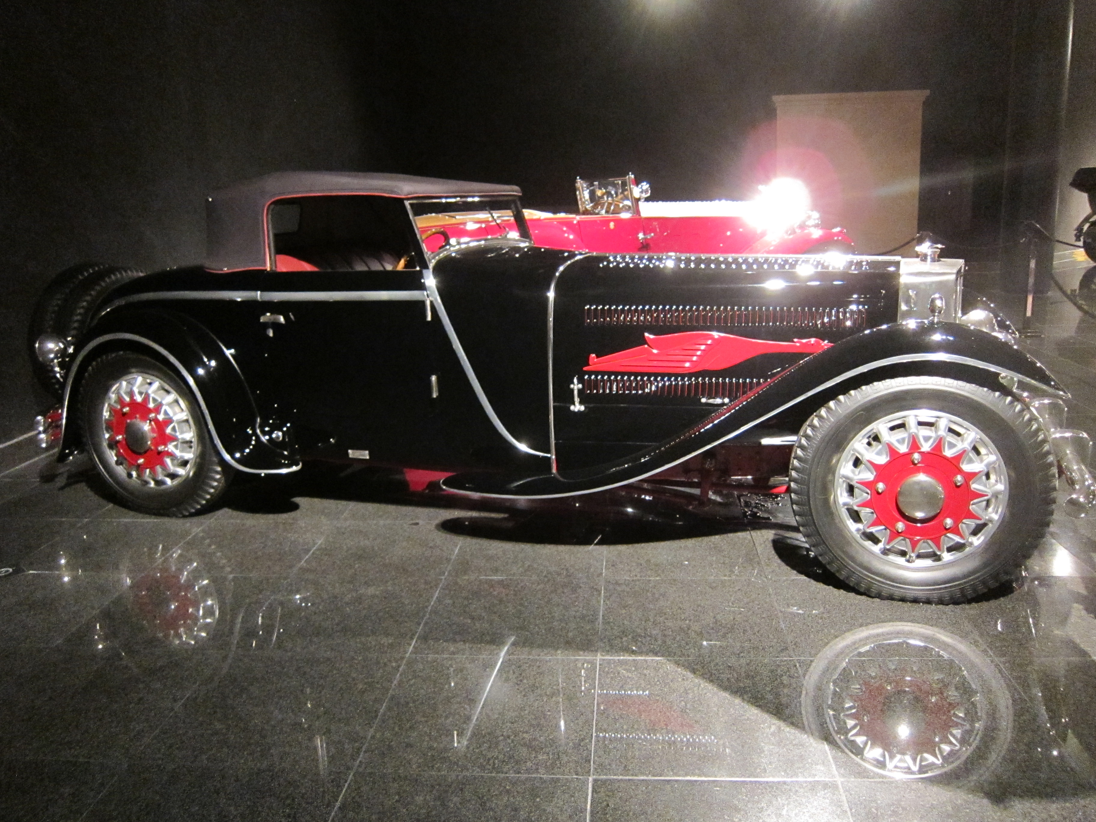 Awesome Behring collection of classic cars. Danville, CA